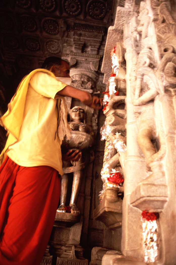 A "Pujari" cleaning an Idol at the Jain Temple at Ranakpur. When we speak or open our mouths, sometimes spittle sprays out. The mask over his face is to prevent spit droplets from landing on holy images or books.